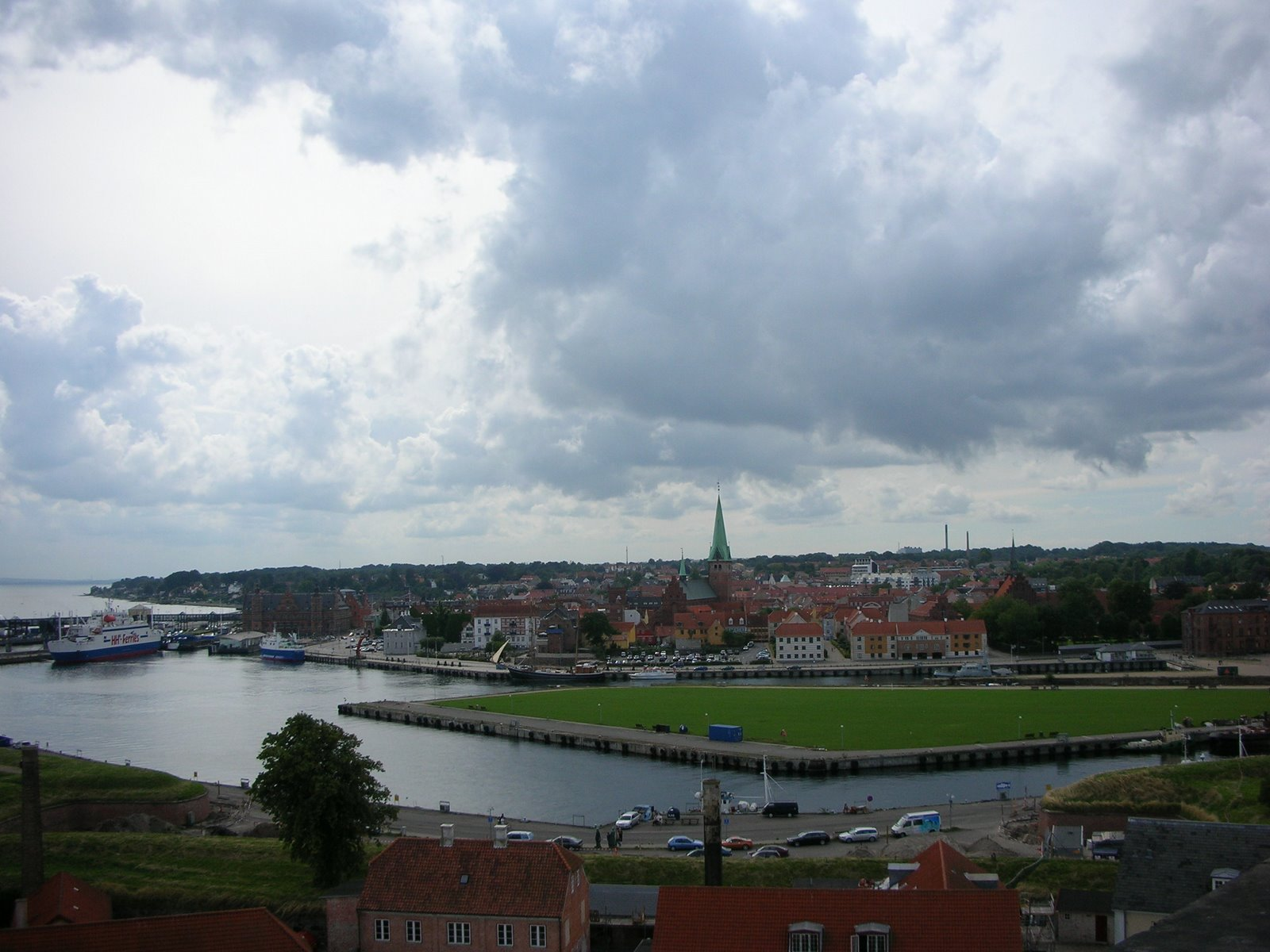 View of Elsinore, Denmark, from Kronborg Castle.